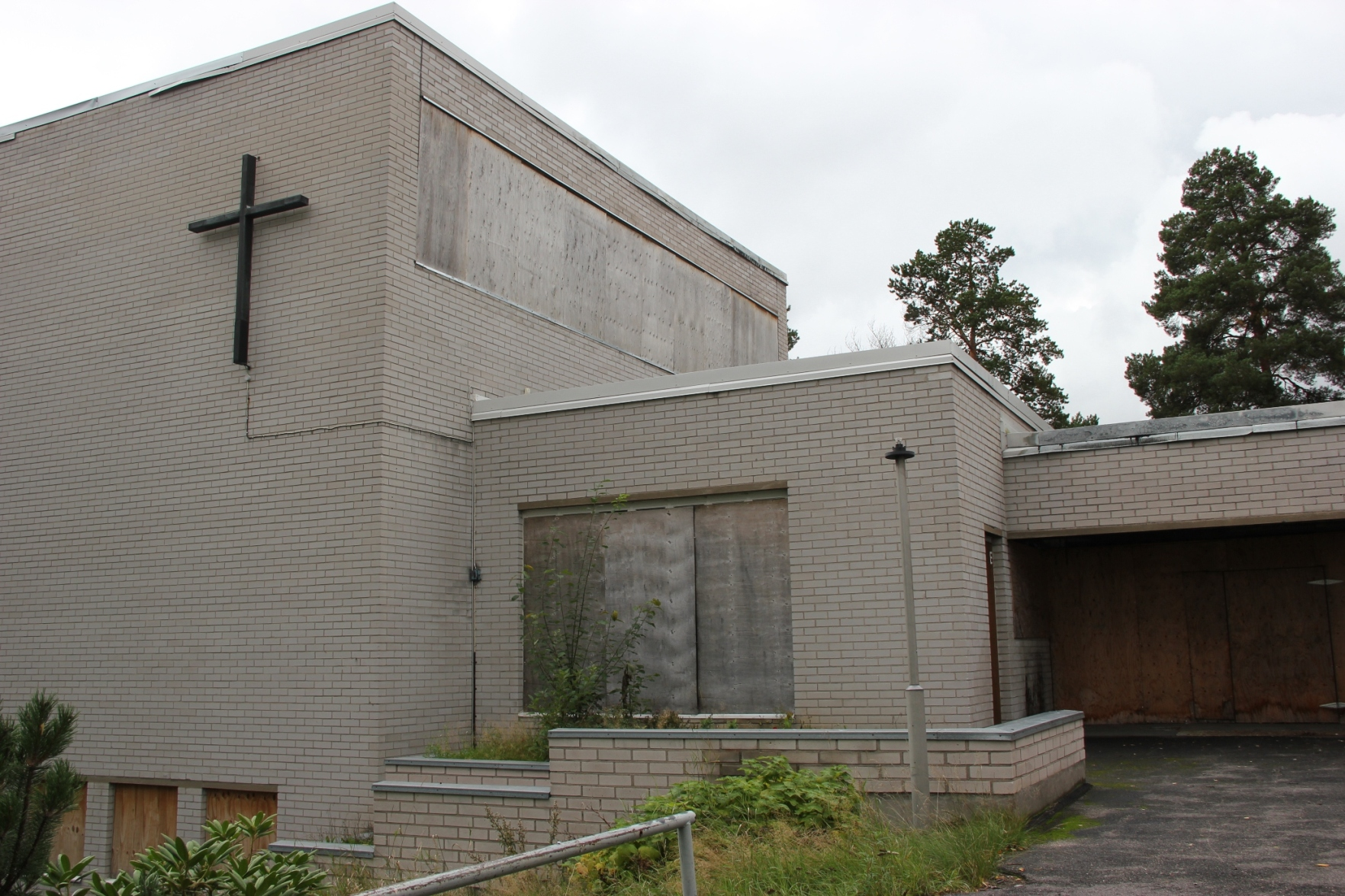 Kaivoksela Church in Vantaa, Finland, burnt down inside in 2006